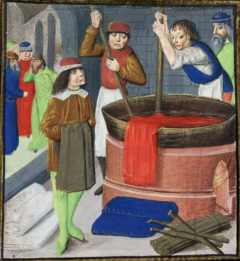 Dyeing wool cloth, from "Des Proprietez des Choses" by Bartholomaeus Anglicus British Library Royal MS 15.E.iii, folio 269